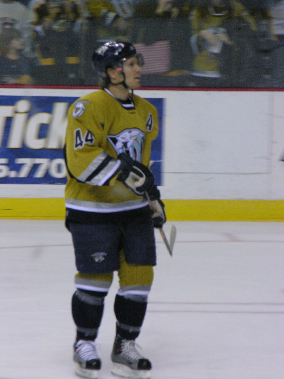 Kimmo Timonen in action